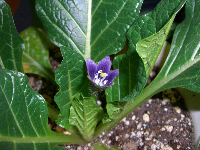 Flora of Mandragora officinarum